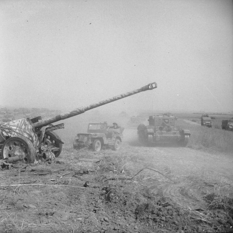 A Cromwell tank and jeep pass an abandoned German PAK 43/41 gun during Operation 'Totalise'